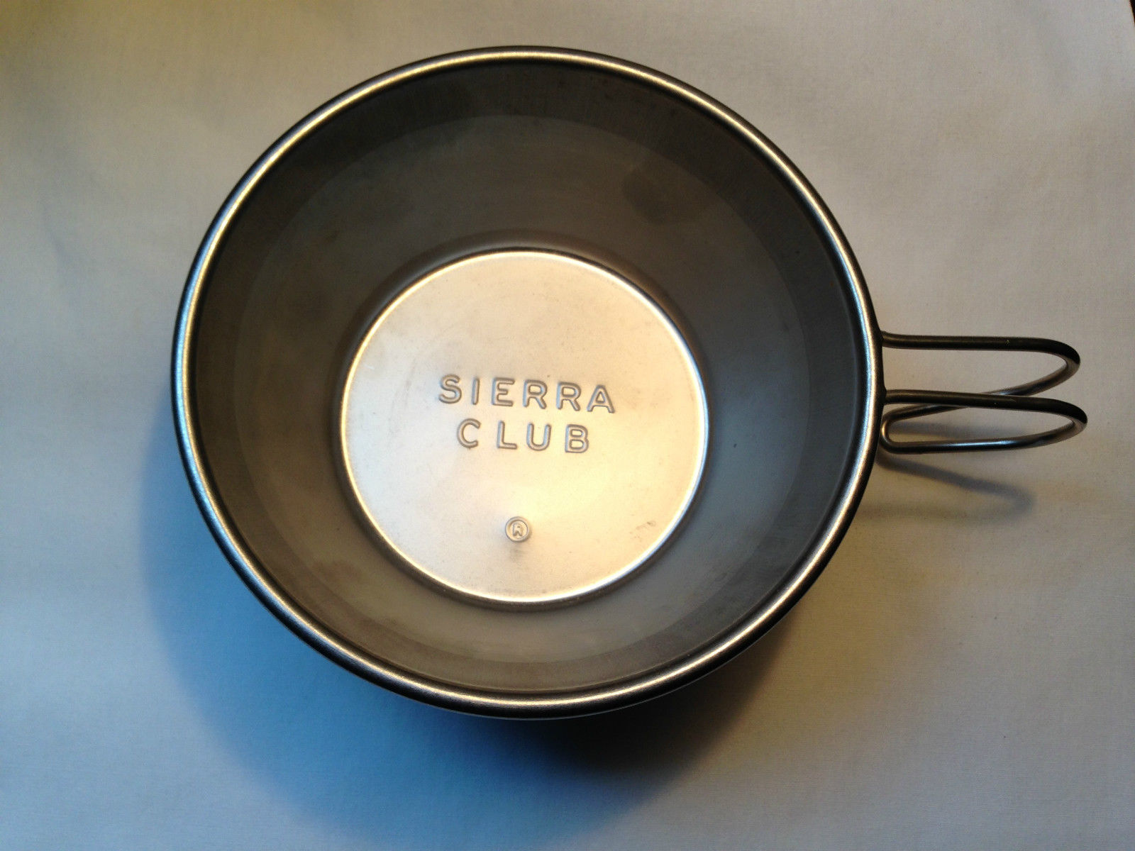 Sierra Cup